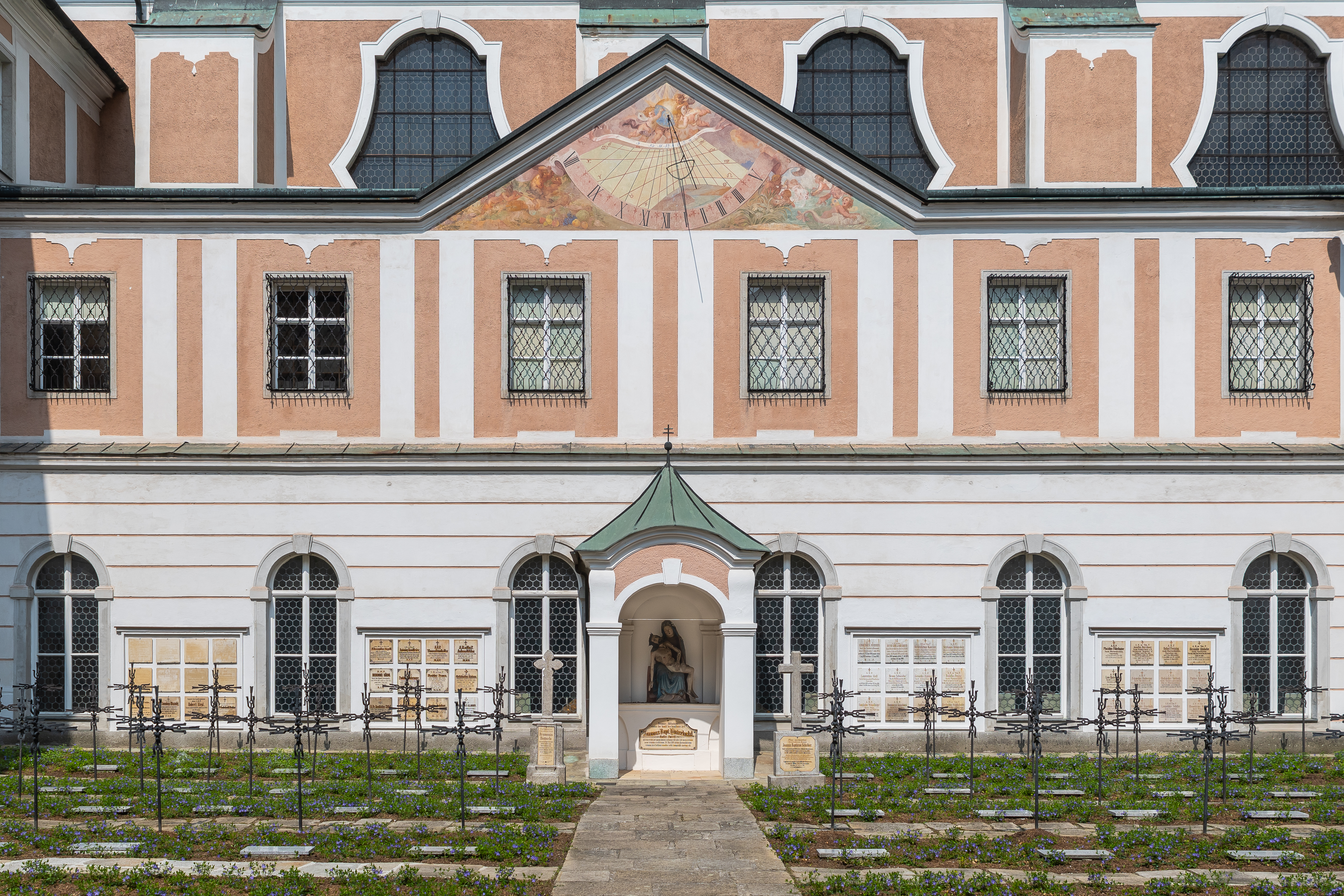 Cemetery of monks of Wilhering abbey with cemetery chapel and Pietà